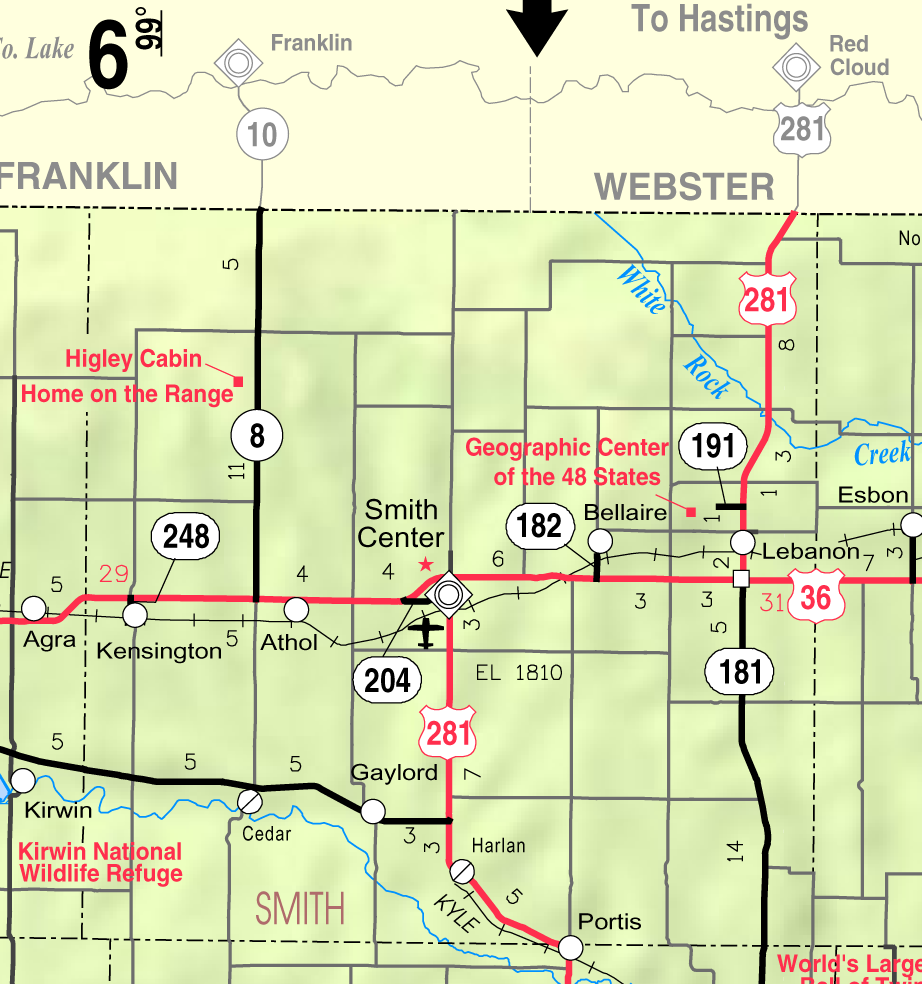 This map of Smith County, Kansas, USA, is copied at a resolution of 300 pixels/inch from the original PDF file.